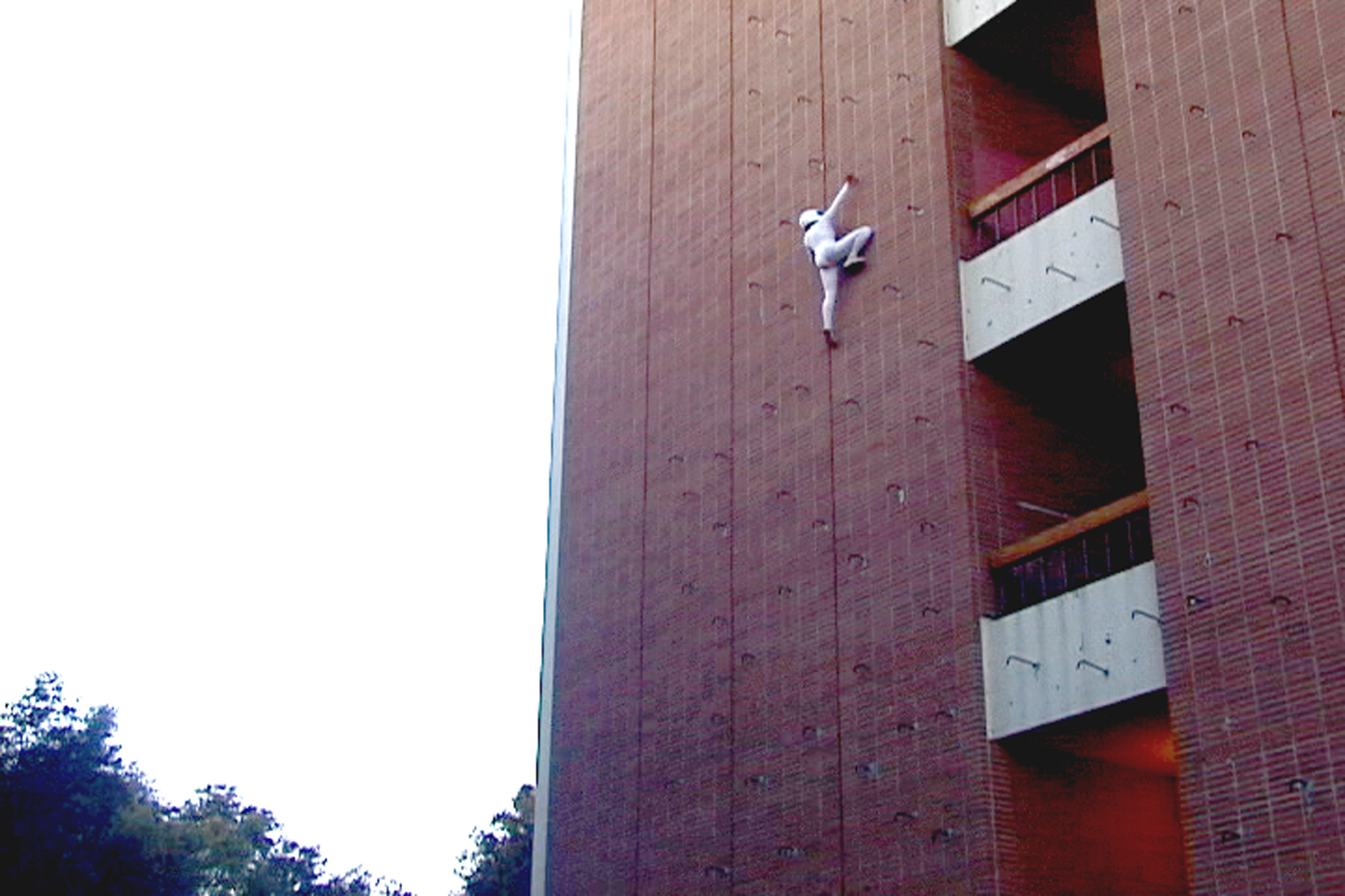 Mason scaling UCLA's Dixon Art Building, 2001